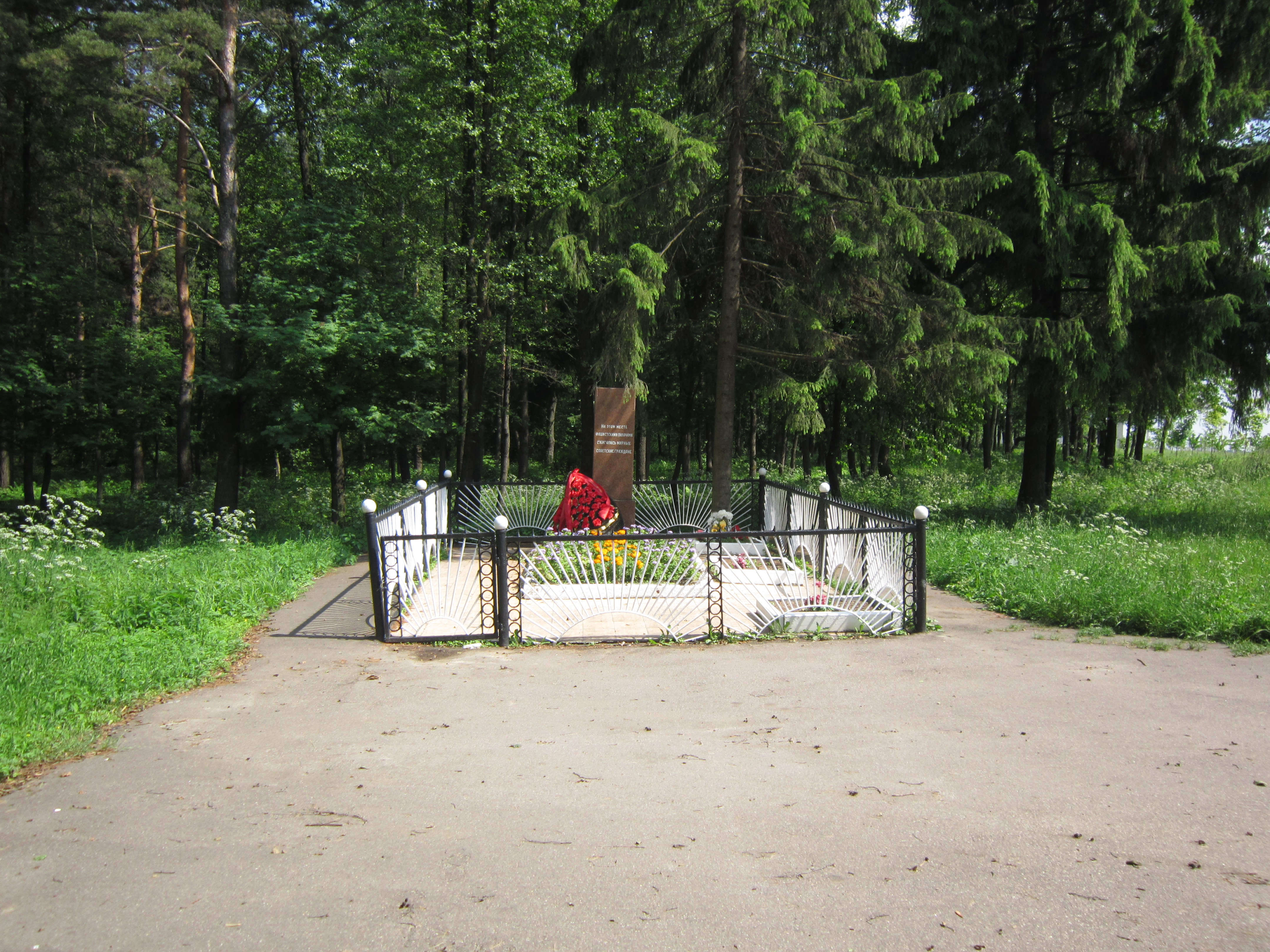 Memorial sign on a place of Maly Trastsianets extermination camp (Minsk, Belarus). Inscription (literal translation): «On this place fascist torturers burned peaceful Soviet people»